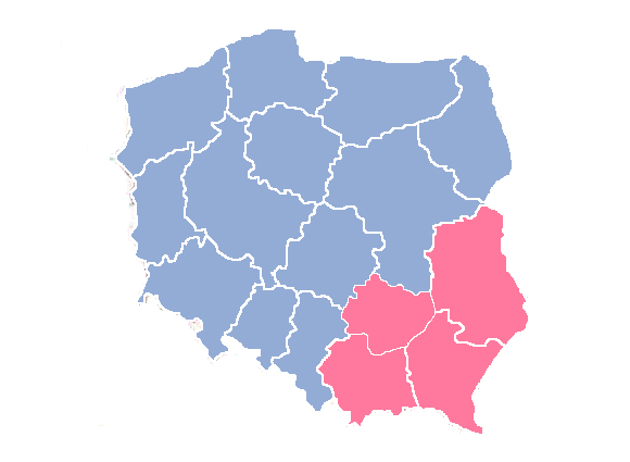 July 2019 map of Polish regions (Voivodeships) whose regional assemblies declared that they are LGBT-free zones, signalling exclusion of the LGBT community. In addition (not marked) over 25 Polish municipalities made LGBT-free zone resolutions. Map per description (+map) in Washington Post (English) A text list of regions adopting this measure is available in Gazeta Wyborcza (Polish)